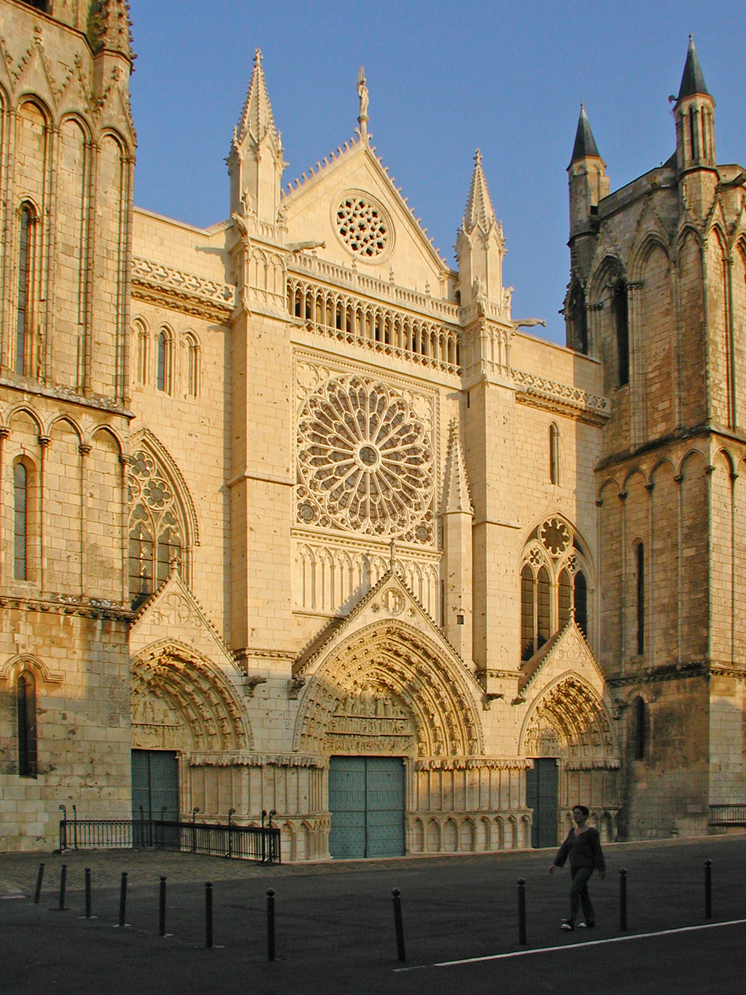 Main façade of Poitiers Cathedral, Vienne, France